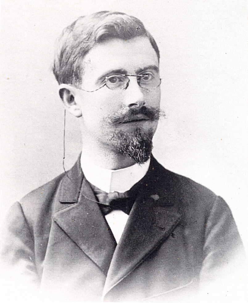 Bernard Brunhes (1867-1910), French geophysicist who discoverered the Earth's magnetic field reversals